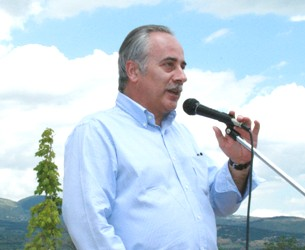 Joan Carretero at a meeting in Puicerdà.